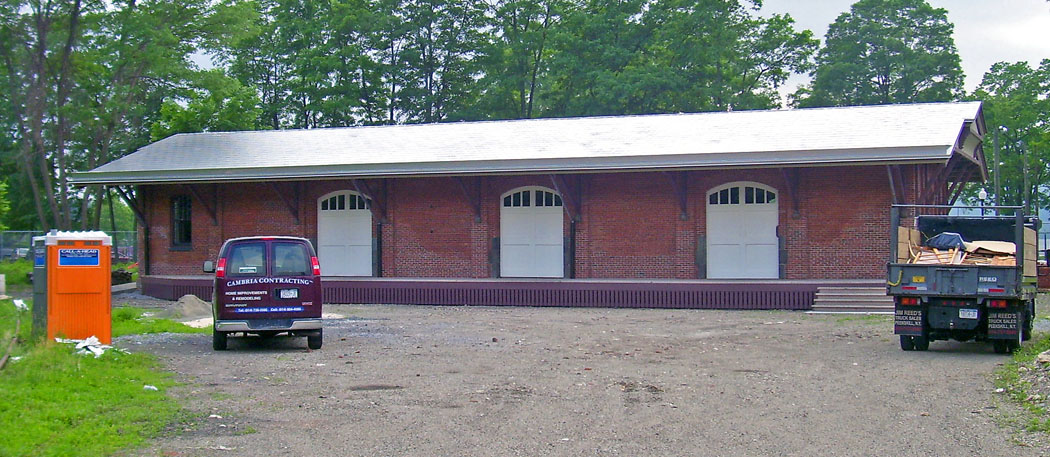 Photographed by Daniel Case 2007-06-09